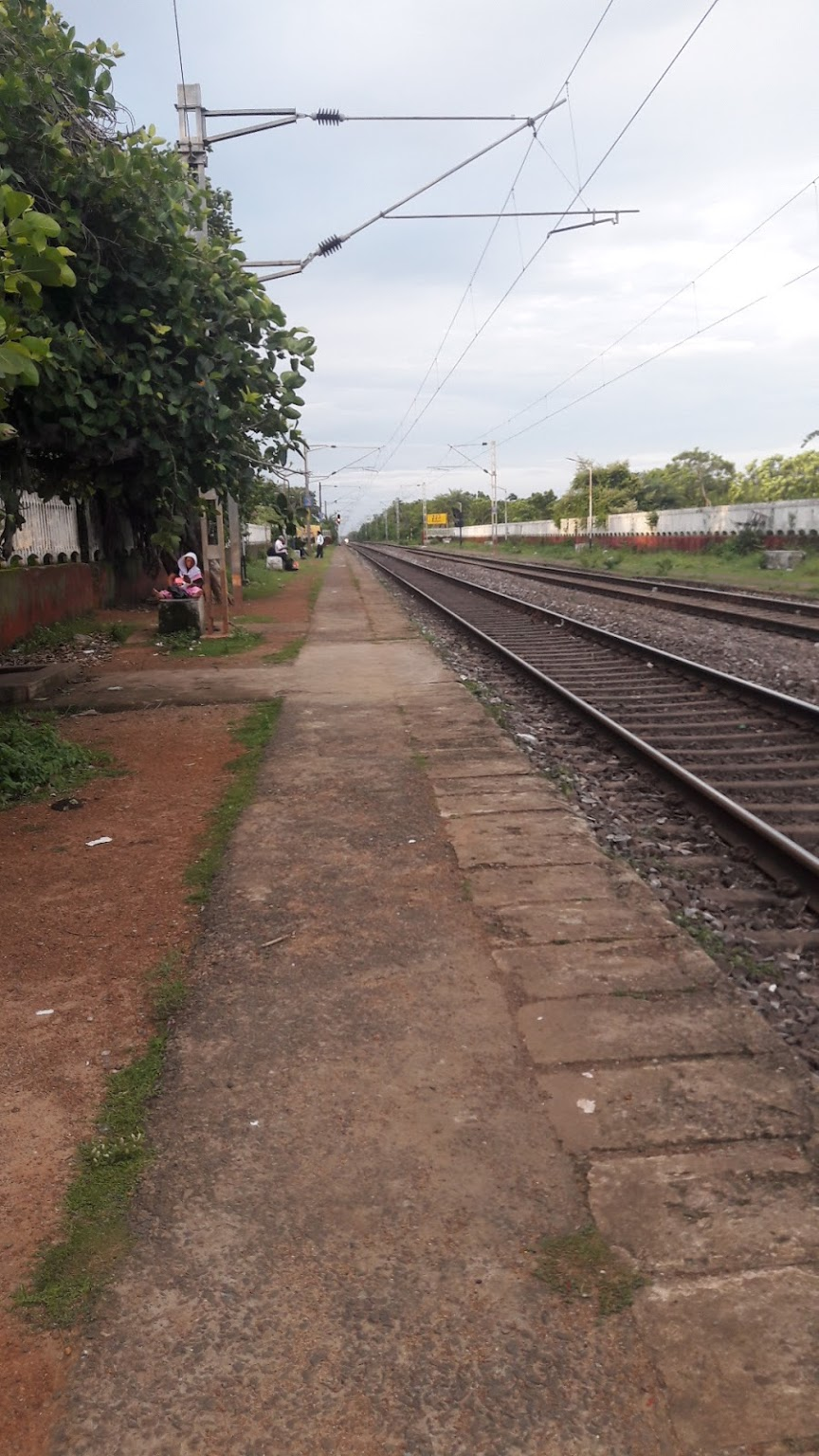 This is the Picture of Kuhuri railway station